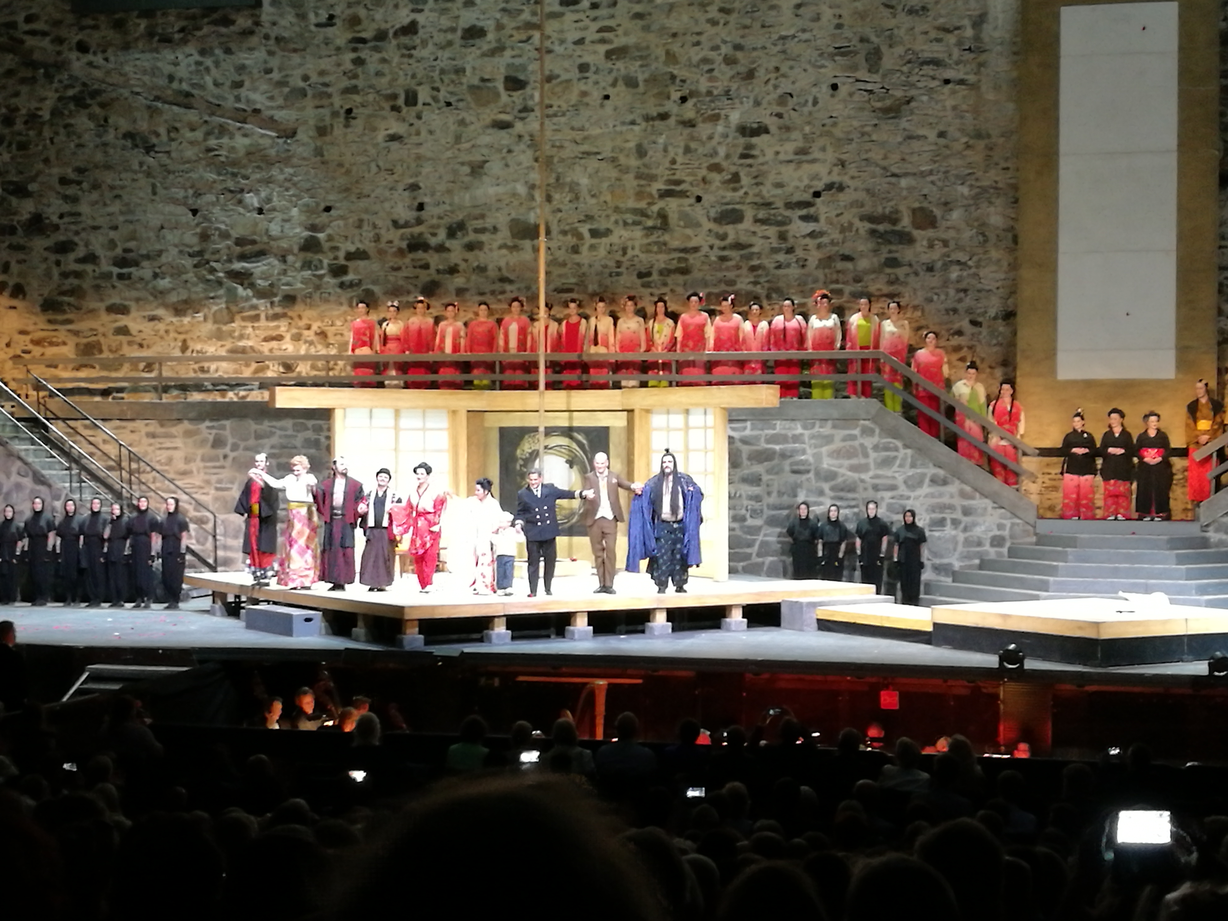 After the performance of Madame Butterfly, on 9 July 2018 at Savonlinna Opera Festival.